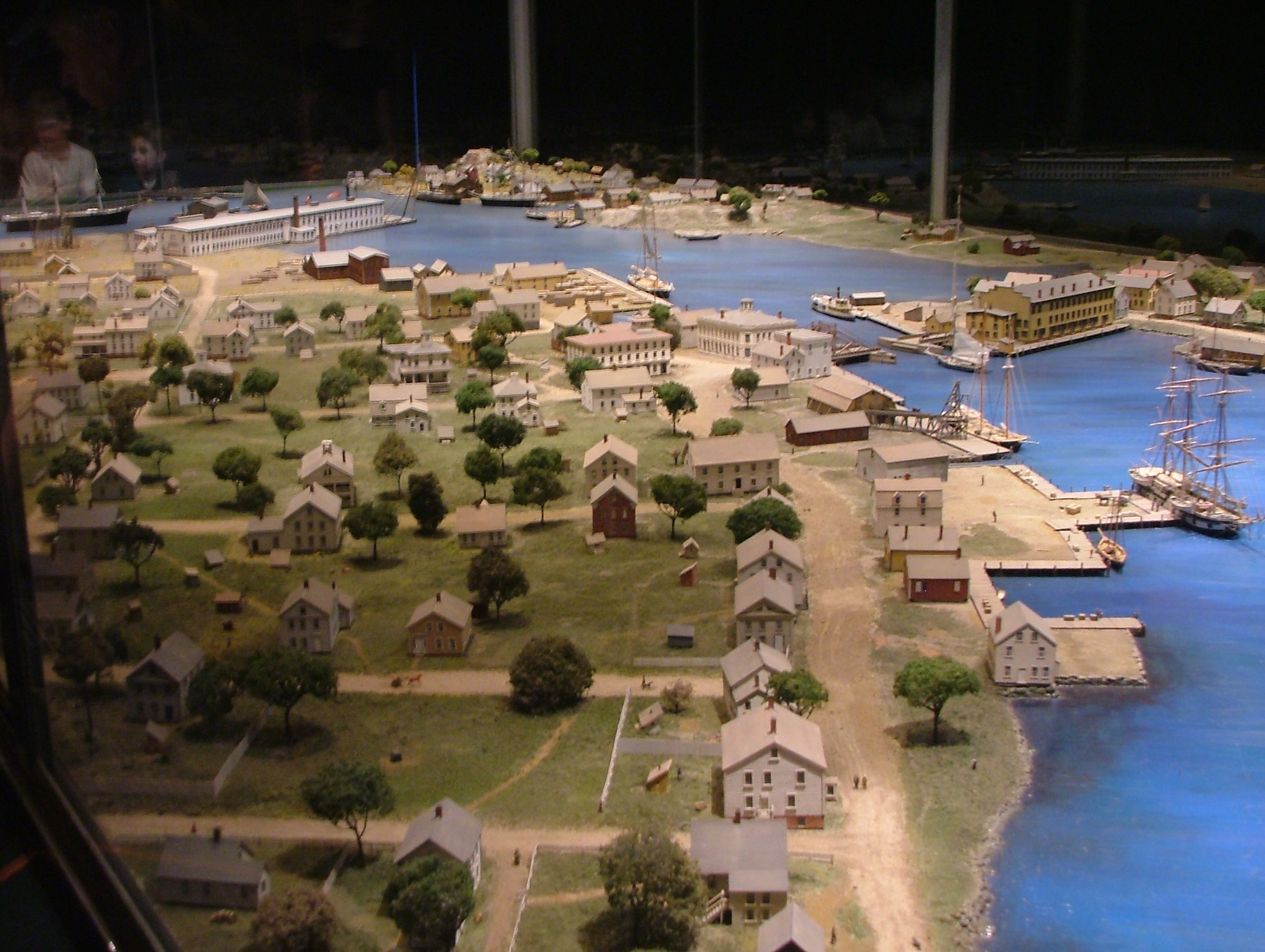 1:128 sclae model of Mystic about 1870